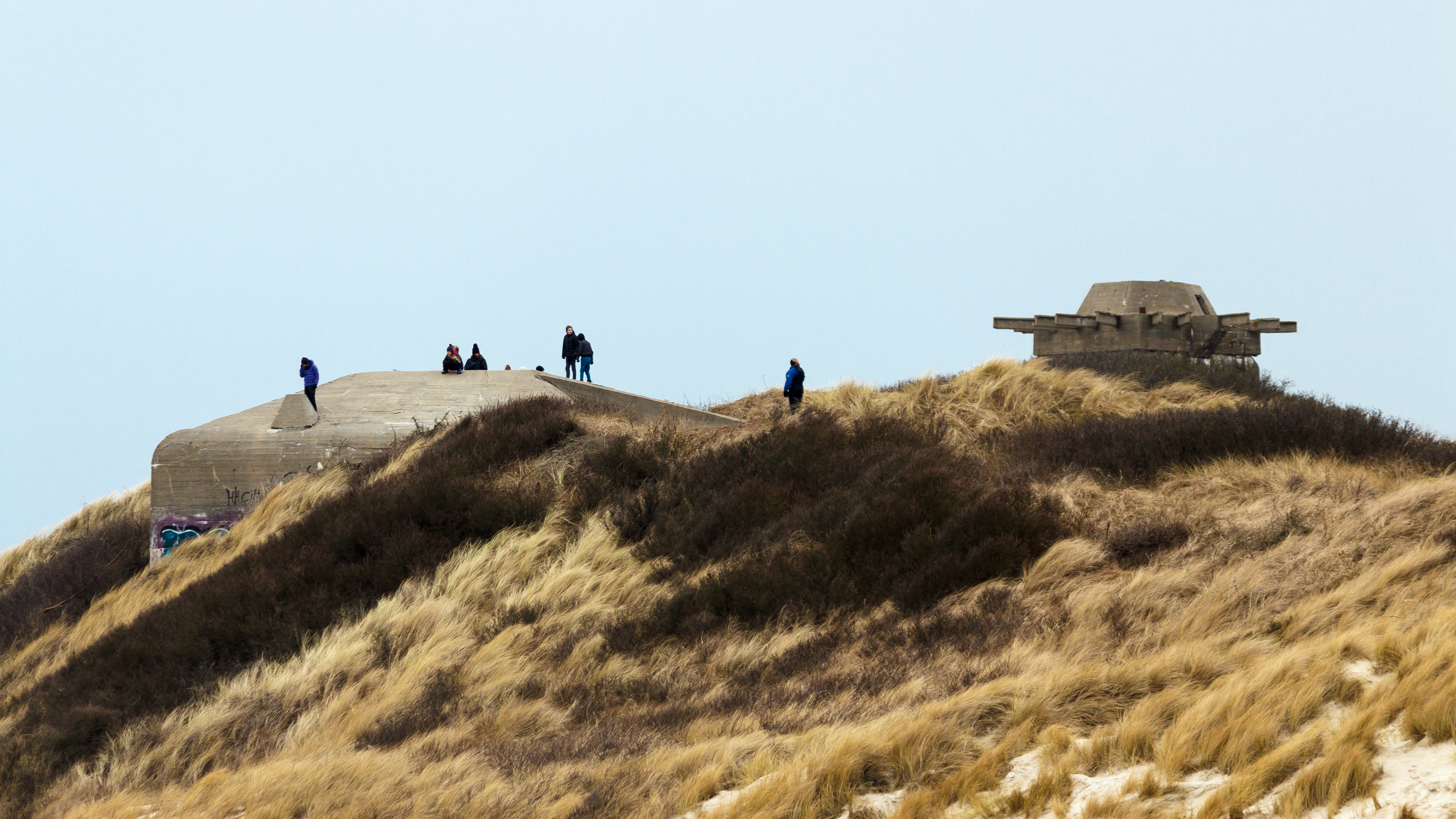 Bunkers at Blåvandshuk, Denmark. The concrete tower to the right originally had an 11 ton Würzburg-Riese parabolic radar antenna installed on top of it. It was operated by the German Kriegsmarine during World War 2